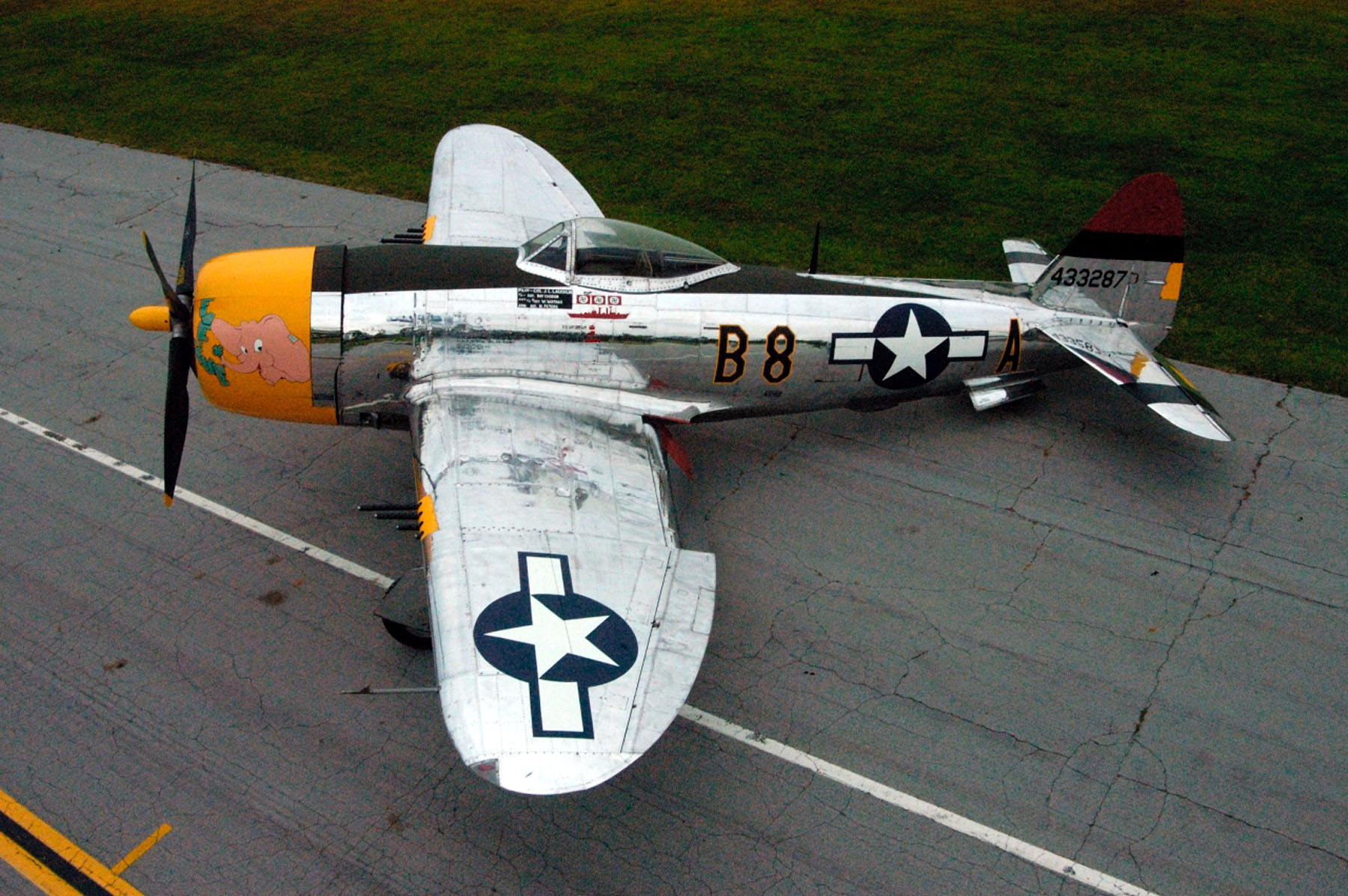 DAYTON, Ohio -- Republic P-47D at the National Museum of the United States Air Force.